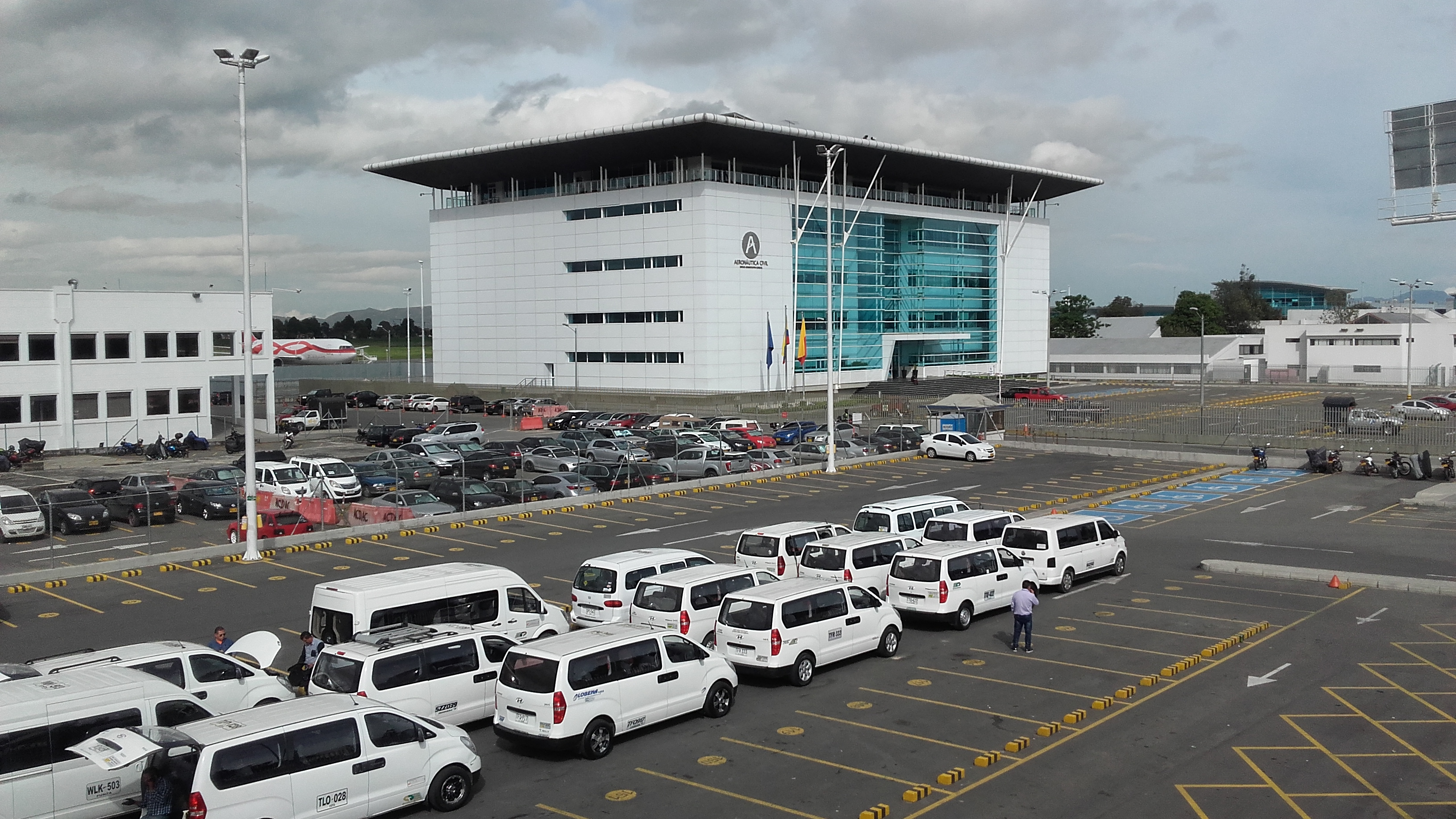 Headquarters of Aerocivil (Special Administrative Unit of Civil Aeronautics), El Dorado International Airport